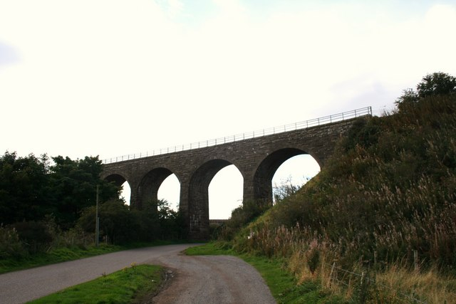 North Esk Water Railway Bridge Disused, the majesty of the bridge is still apparent.